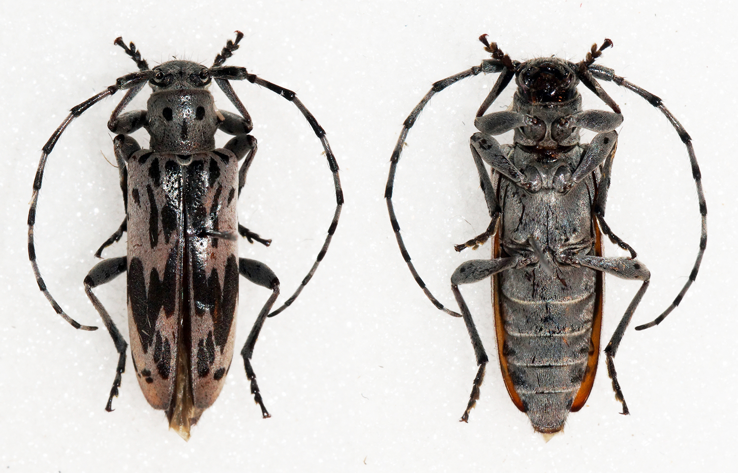 Skinner,1905 Sex: Male Data: 19-08-14 - Montosa Canyon - Santa Cruz County - Arizona - USA Size: 12.5mm